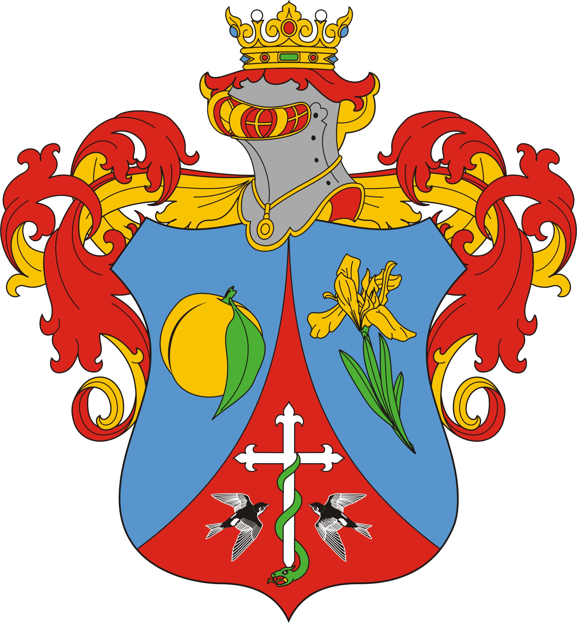 Coat of arms of Zsombó, Hungary